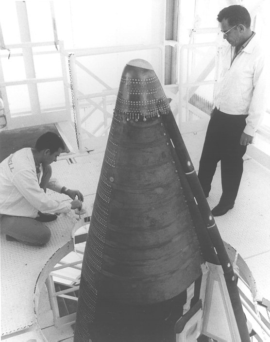 Installation and checkout of the final ASSET spaceplane (ASV-6) atop its launch vehicle. USAF photo taken on February 23, 1965[1] From online copy of government-published book "The 6555th: Missile and Space Launches Through 1970" [2] by Mark C. Cleary, Chief Historian 45 Space Wing Office of History 1201 Minuteman Ave, Patrick AFB, FL 32925